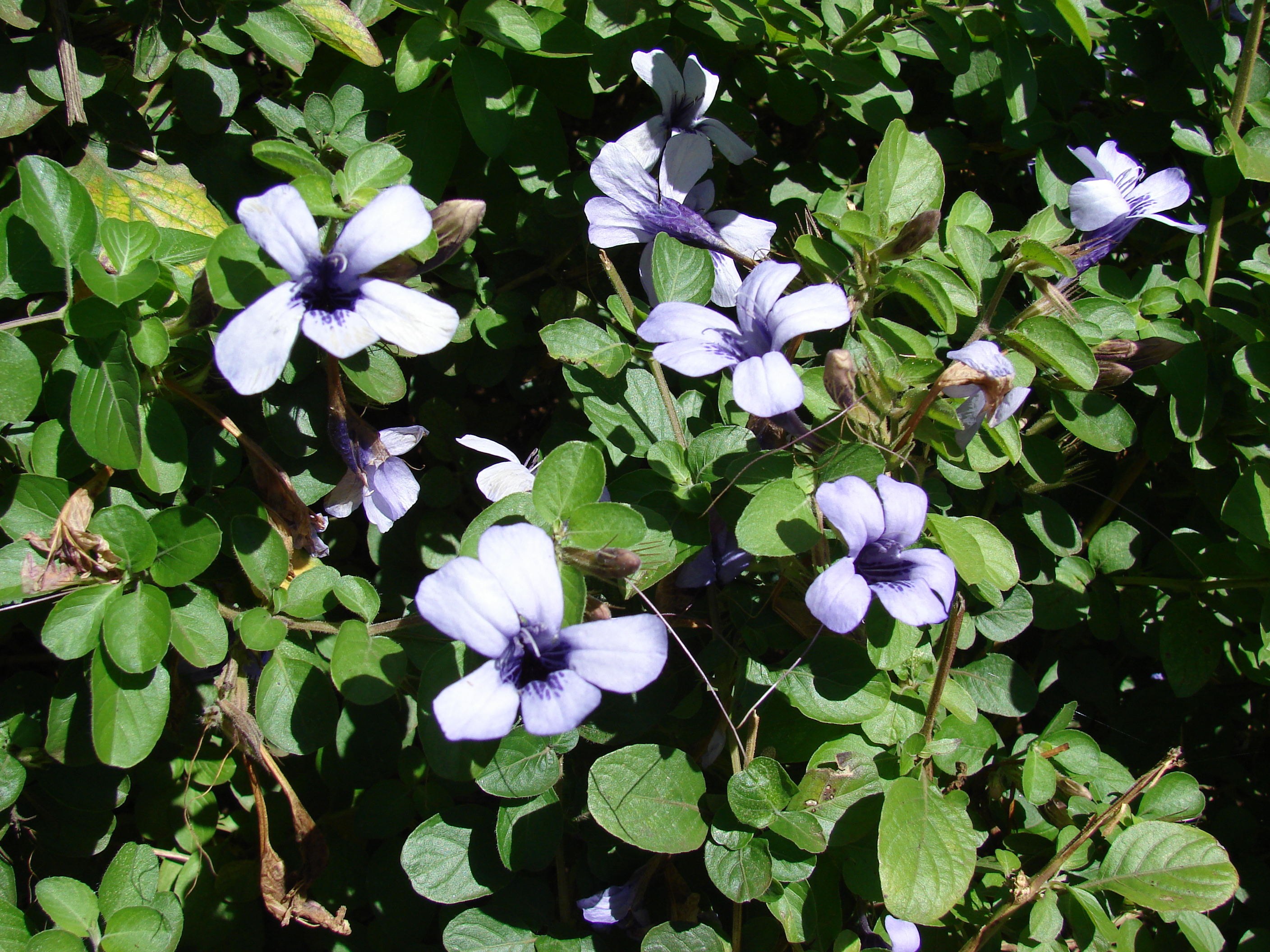 Dyschoriste hygrophyloides (flowers and leaves). Location: Maui, Enchanting Floral Gardens of Kula